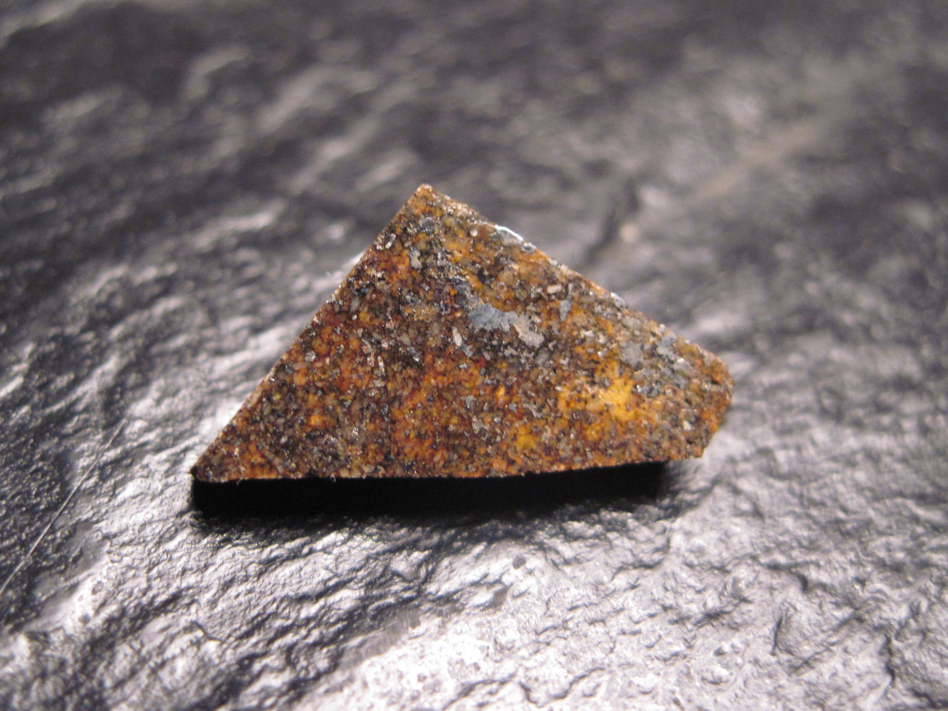 Zaklodzie is an enstatite-rich ungrouped primitive achondrite that was found in Zamosk, Poland in September of 1998. The finder had been searching for fossils and rocks near a dirt road when he located the meteorite. Some speculate that it might have fallen on April 21st, 1897 when a large fireball was witnessed in an area near the find. This is a rare specimen and the TKW is only 8.68 kgs. Close examination reveals a very interesting and unusual orange matrix and a generous amount of metal flake. I encountered a lot of difficulty photographing this unique meteorite due to the glare on the polished face. This is my second attempt at a decent shot. Specimen wt is 1.08 g.